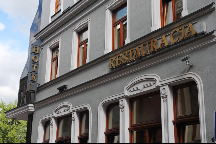 Hotel Victoria in Wloclawek